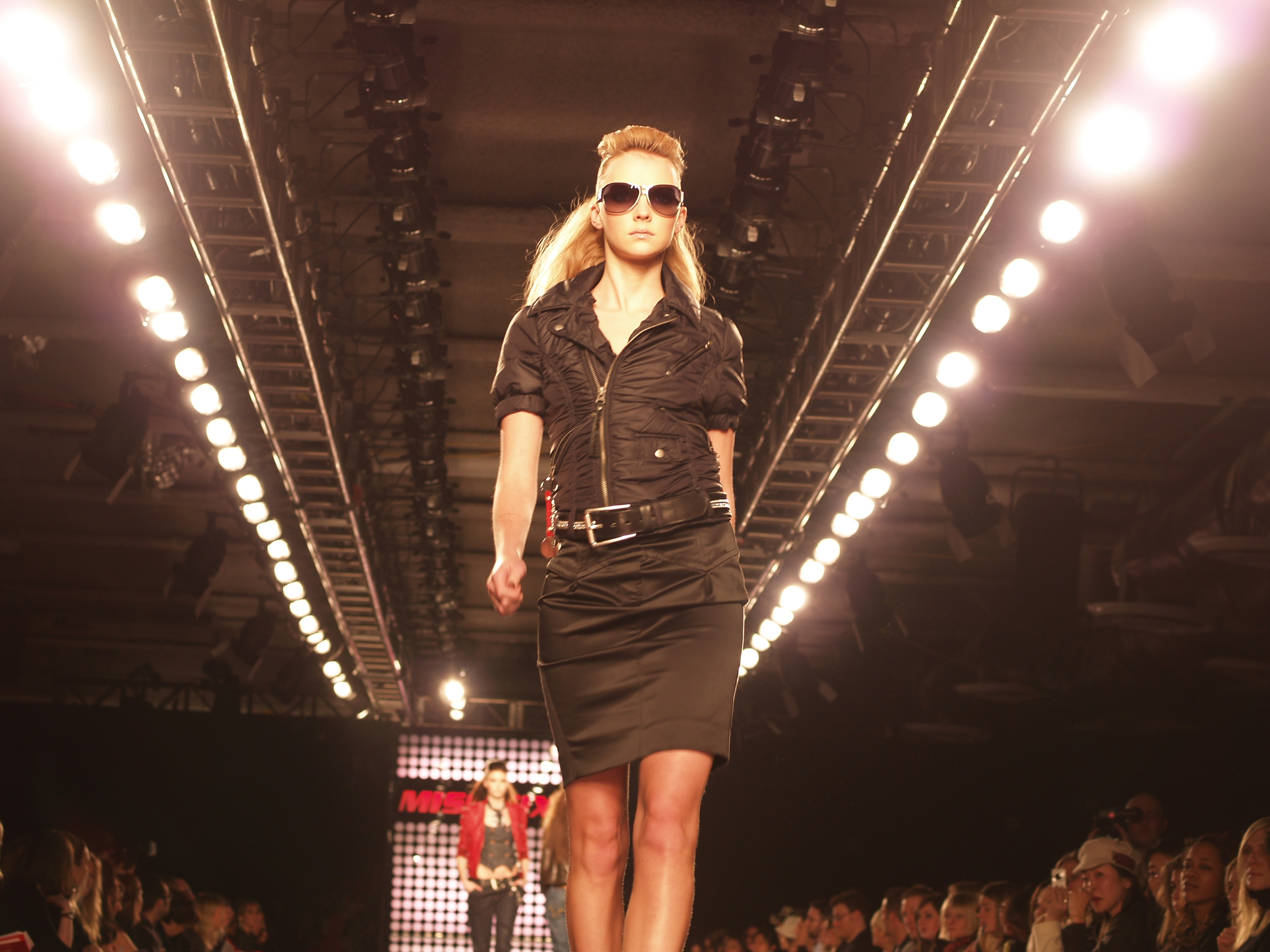 Heather Marks modeling for Miss Sixty, Fall 2007 New York Fashion Week.